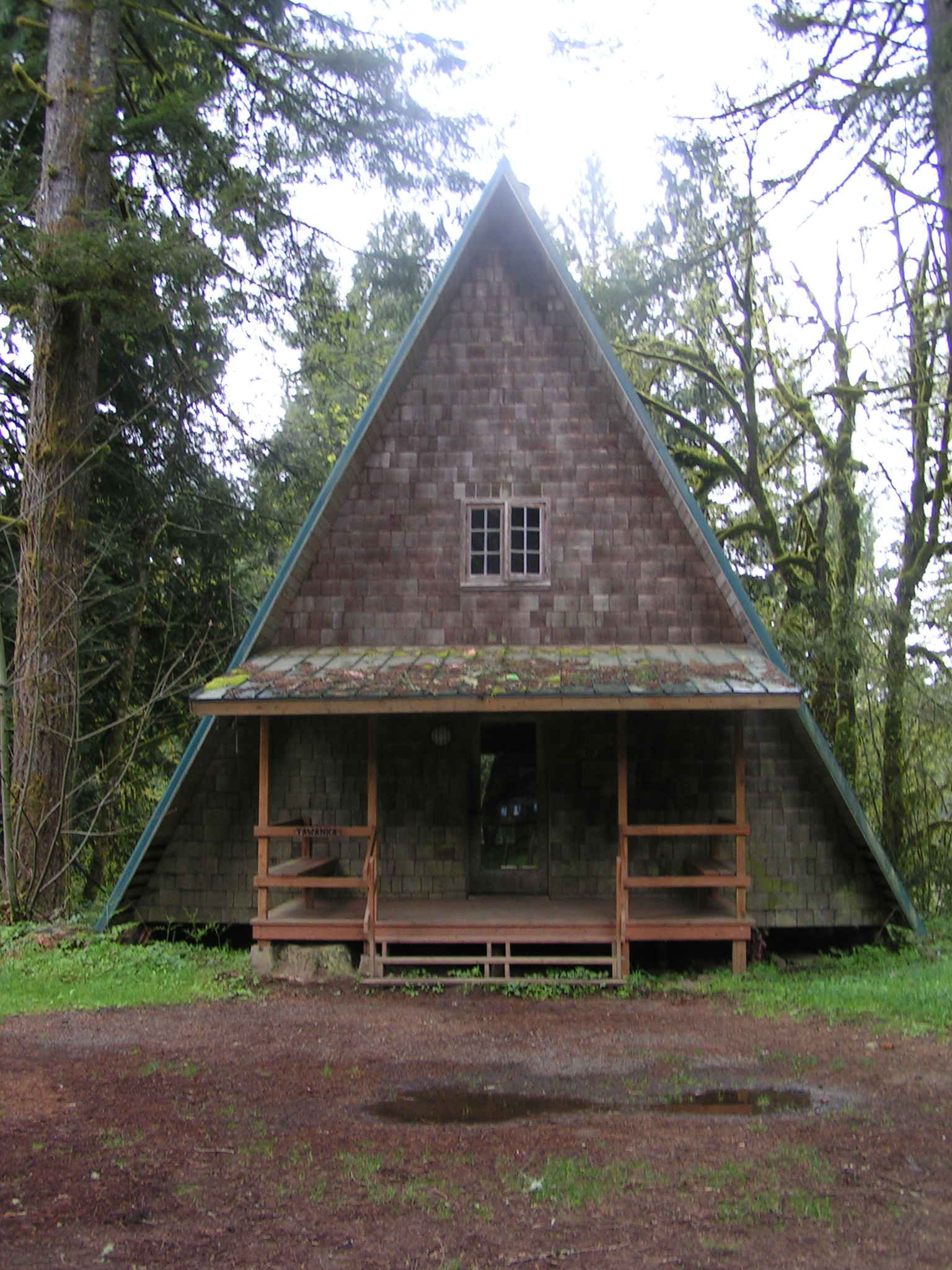 A picture of Tawanka, the CIT cabin at Camp Namanu, in Sandy, Oregon.